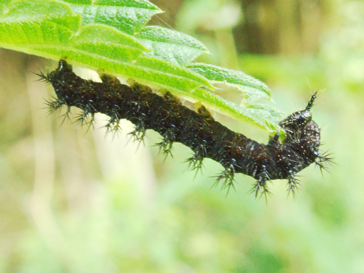 Name: Araschnia levana, caterpillar. Family: Nymphalidae. Location: Münster, NRW, Germany